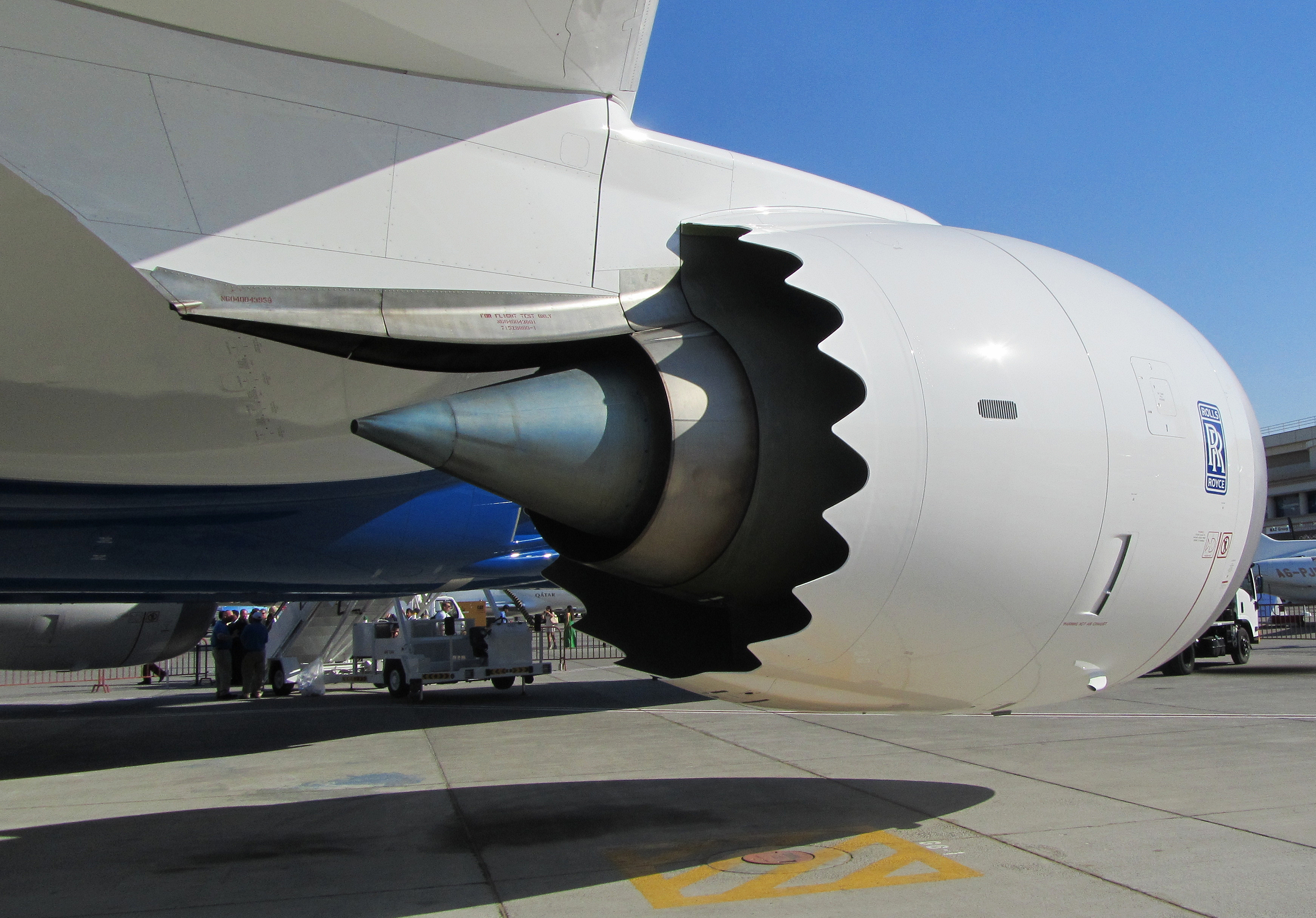 The Rolls-Royce Trent 1000 is a turbofan engine, developed from earlier Trent series engines. The Trent 1000 powered the Boeing 787 Dreamliner on its maiden flight, and on its first commercial flight. The teeth like formations on the engines, called chevrons help in noise reduction. The aircraft here is Boeing's N787BX kept on static display at the Dubai Airshow 2011. Like my Facebook fan page